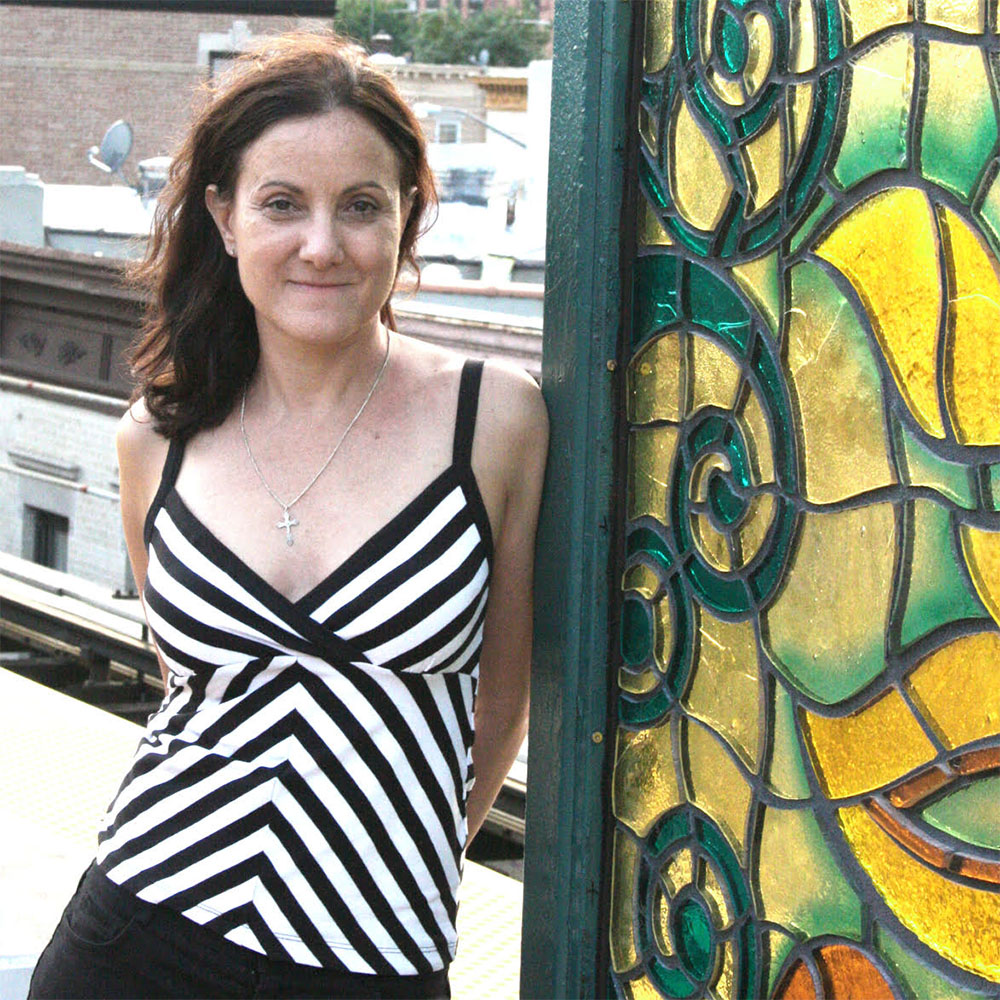 Margaret Lanzetta at Norwood Avenue Subway Station, by MTA Art and Design commission, Culture Swirl 2007